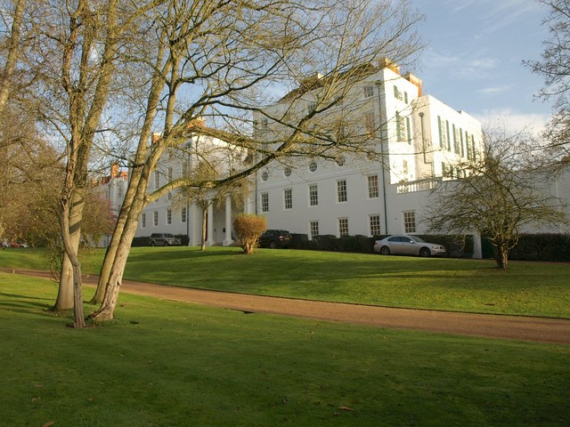 Nashdom Abbey, Burnham, Bucks